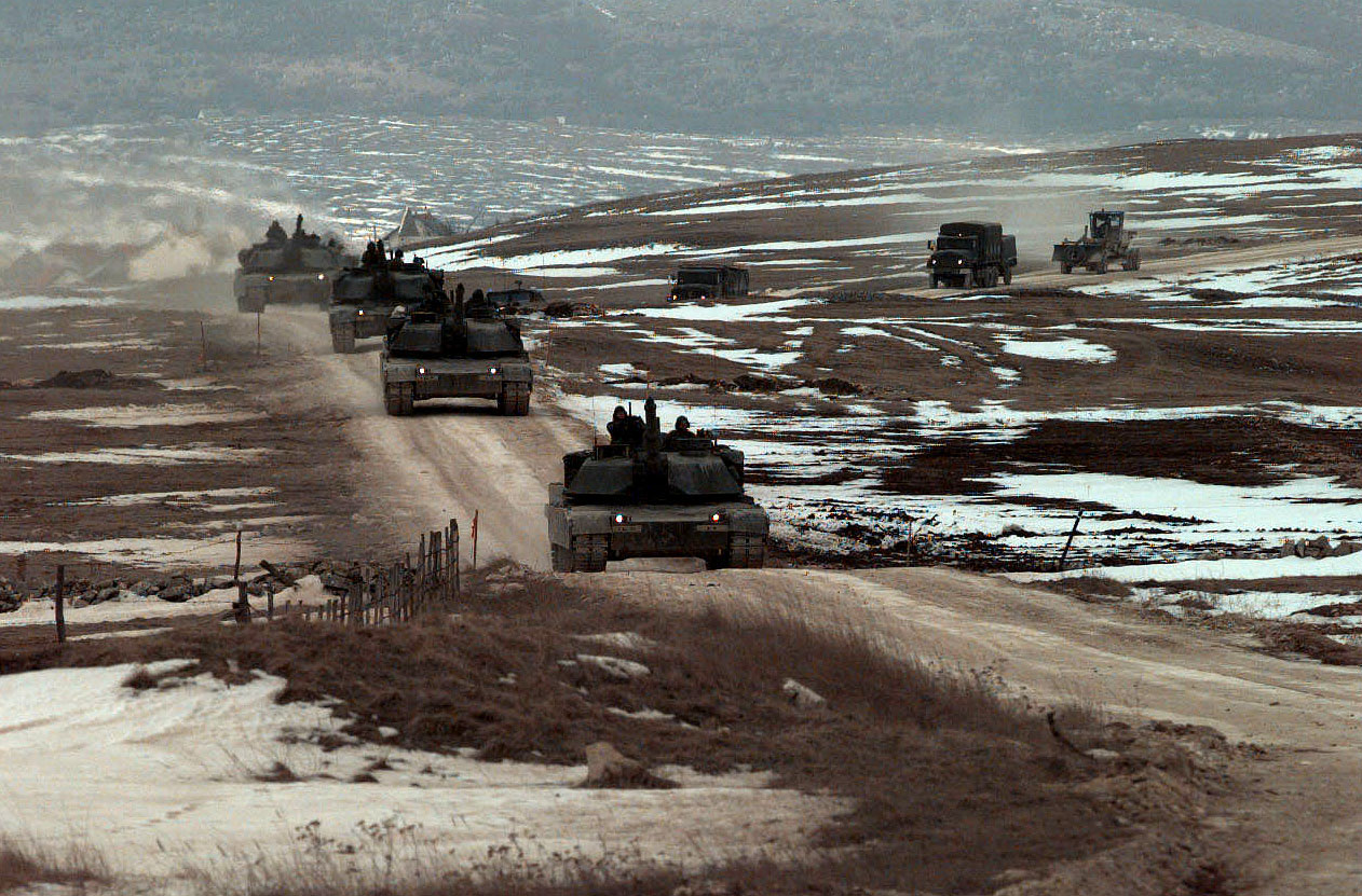 U.S. Army 1st Armored Division M-1A1 Abrams main battle tanks convoy to the Glamoc Ranges in Bosnia and Herzegovina on March 26, 1998. The tankers are going to the ranges to zero in their M1 Abrams at a distance of 1520 meters and to practice platoon or volley fire. The tankers are deployed to Bosnia and Herzegovina as part of the Stabilization Force in Operation Joint Guard.